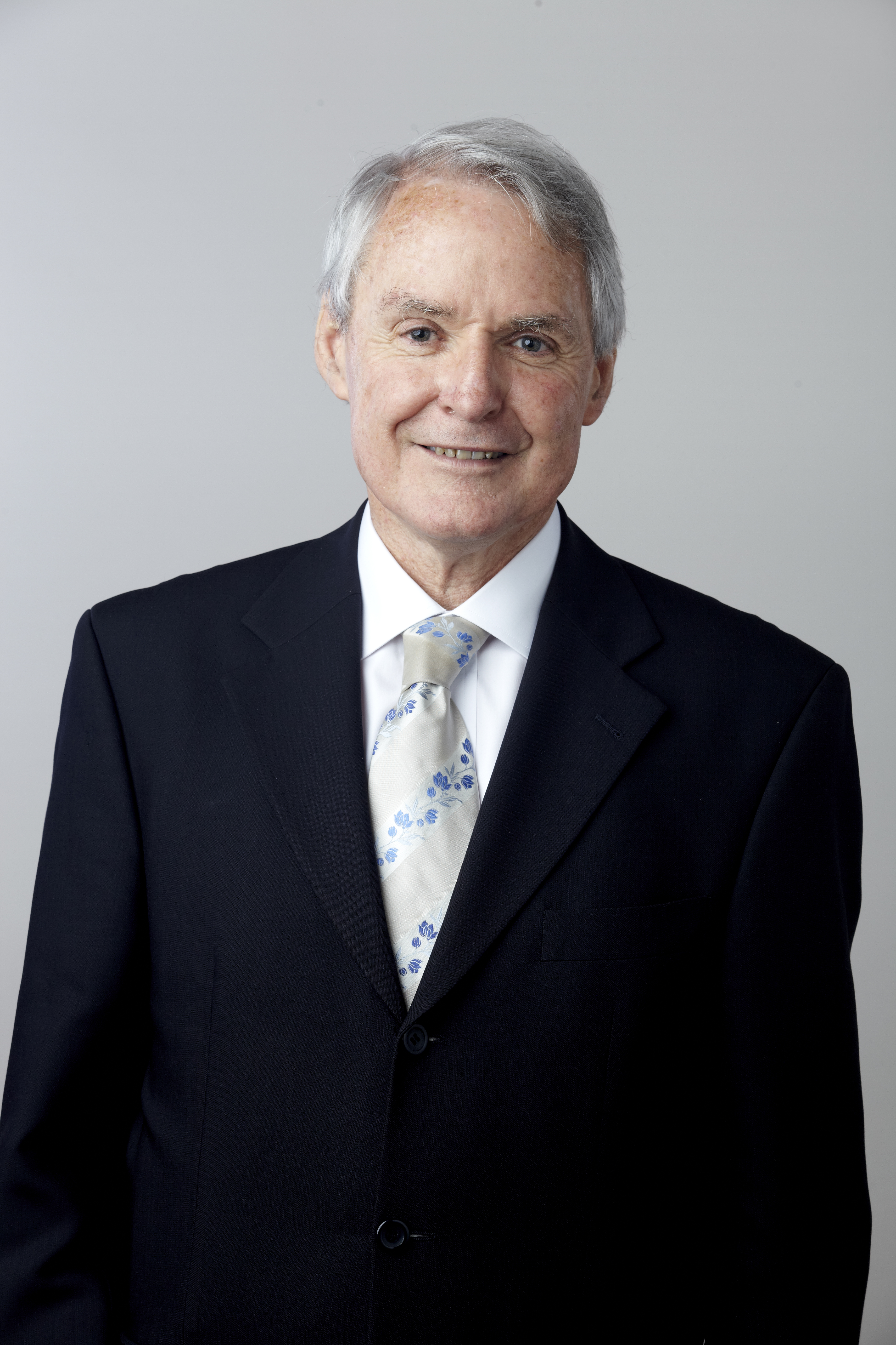 Professor Peter Colman FRS, Royal Society Fellow elected 2014 Attribution: The Royal Society